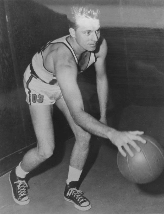 Red Holzman, when playing for the Rochester Royals. He would later became a legendary coach for the NY Knicks.